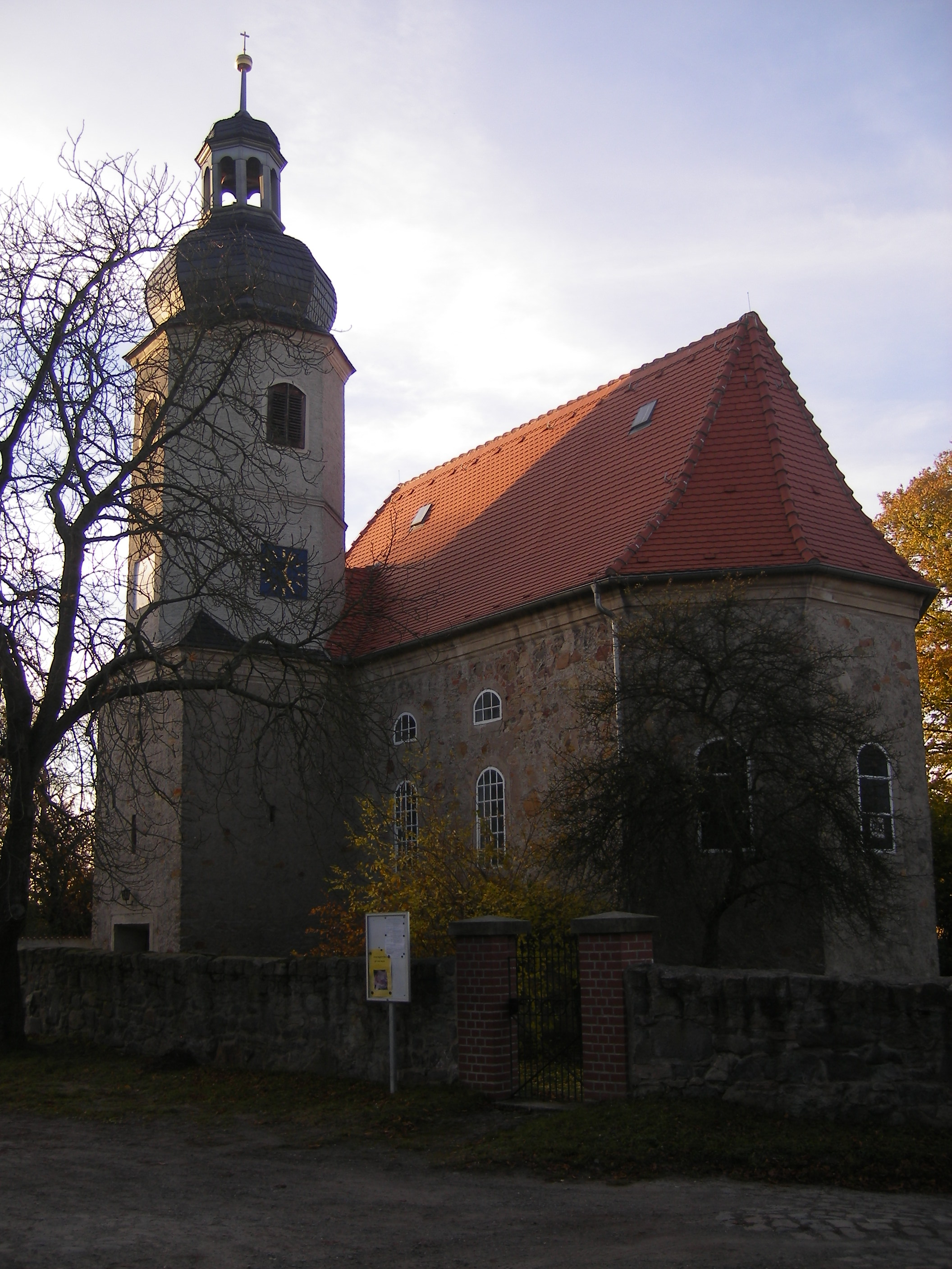 Church in Oberlödla near Altenburg/Thuringia